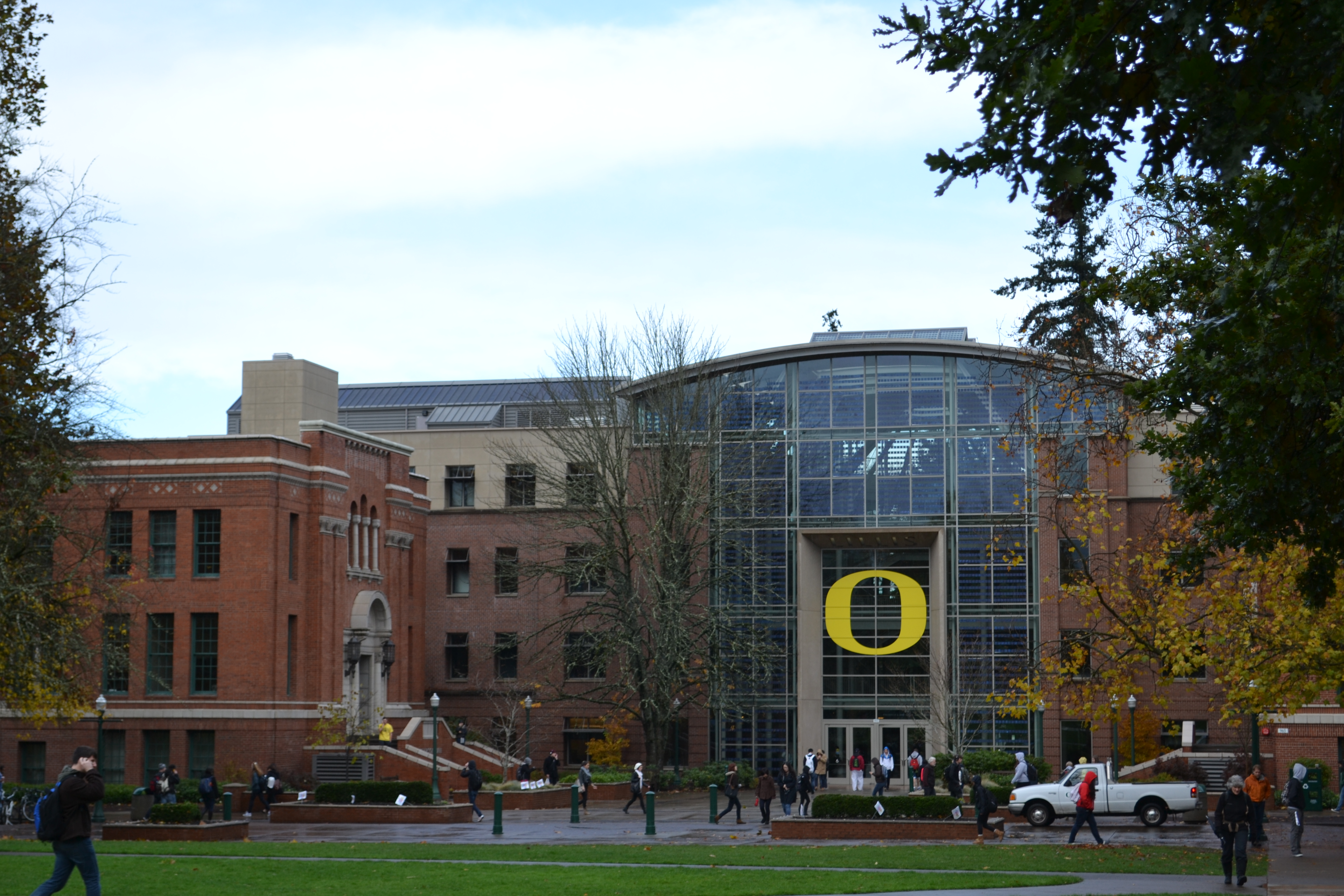 Lillis College of Business Complex (University of Oregon)